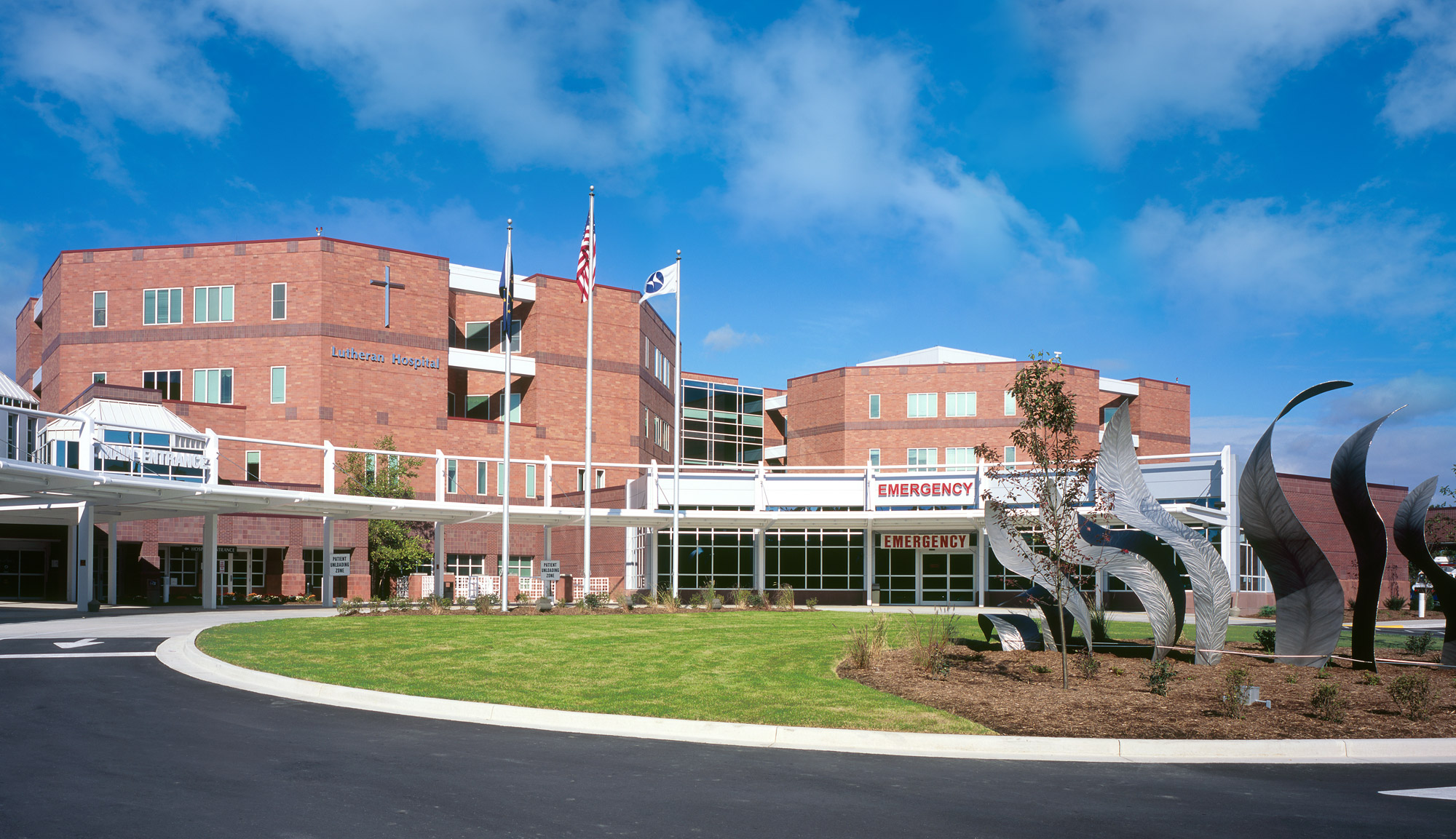 Photo of Lutheran Hospital